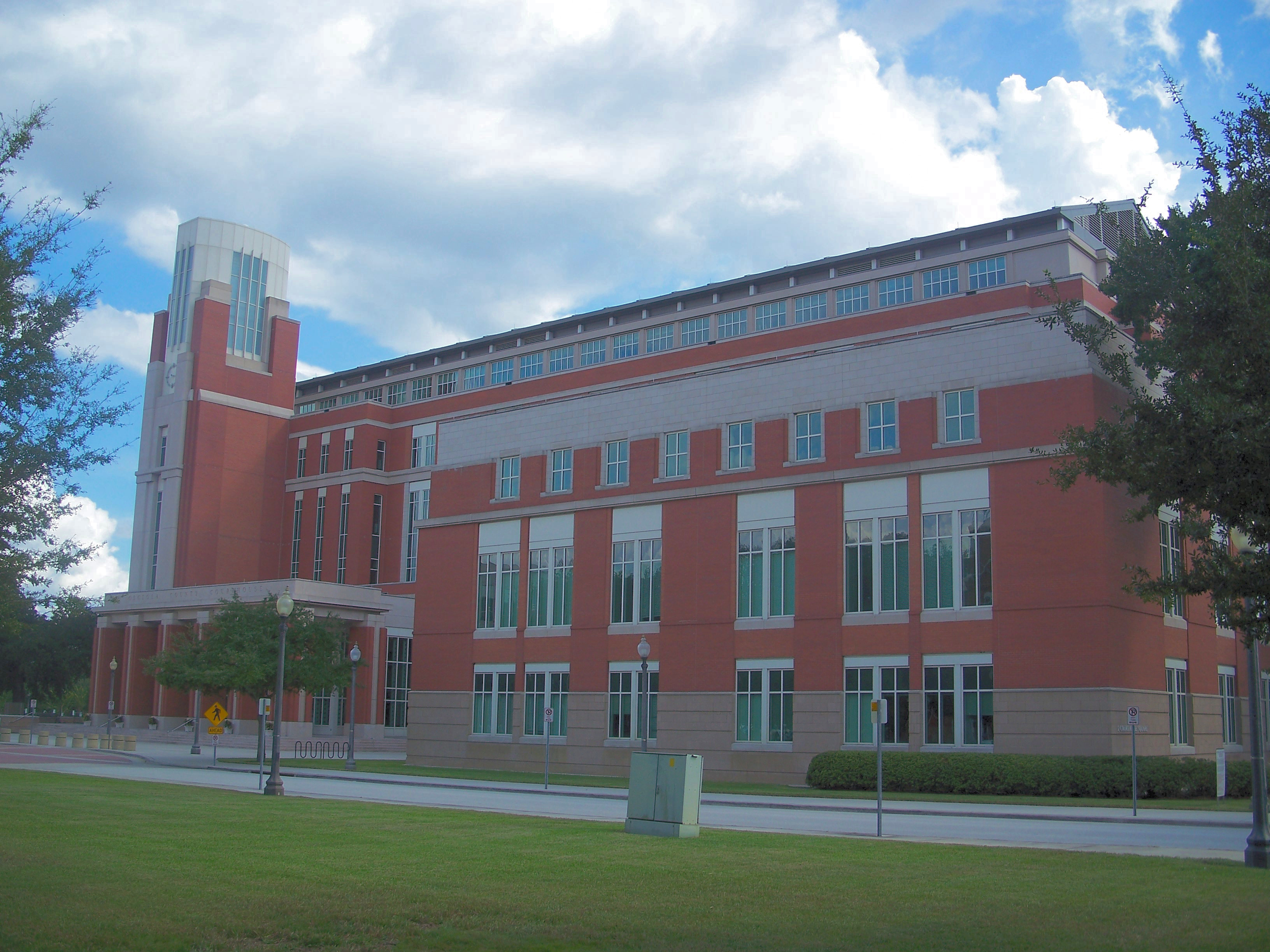 Kissimmee, Florida: Modern county courthouse, across the street from the old historic one